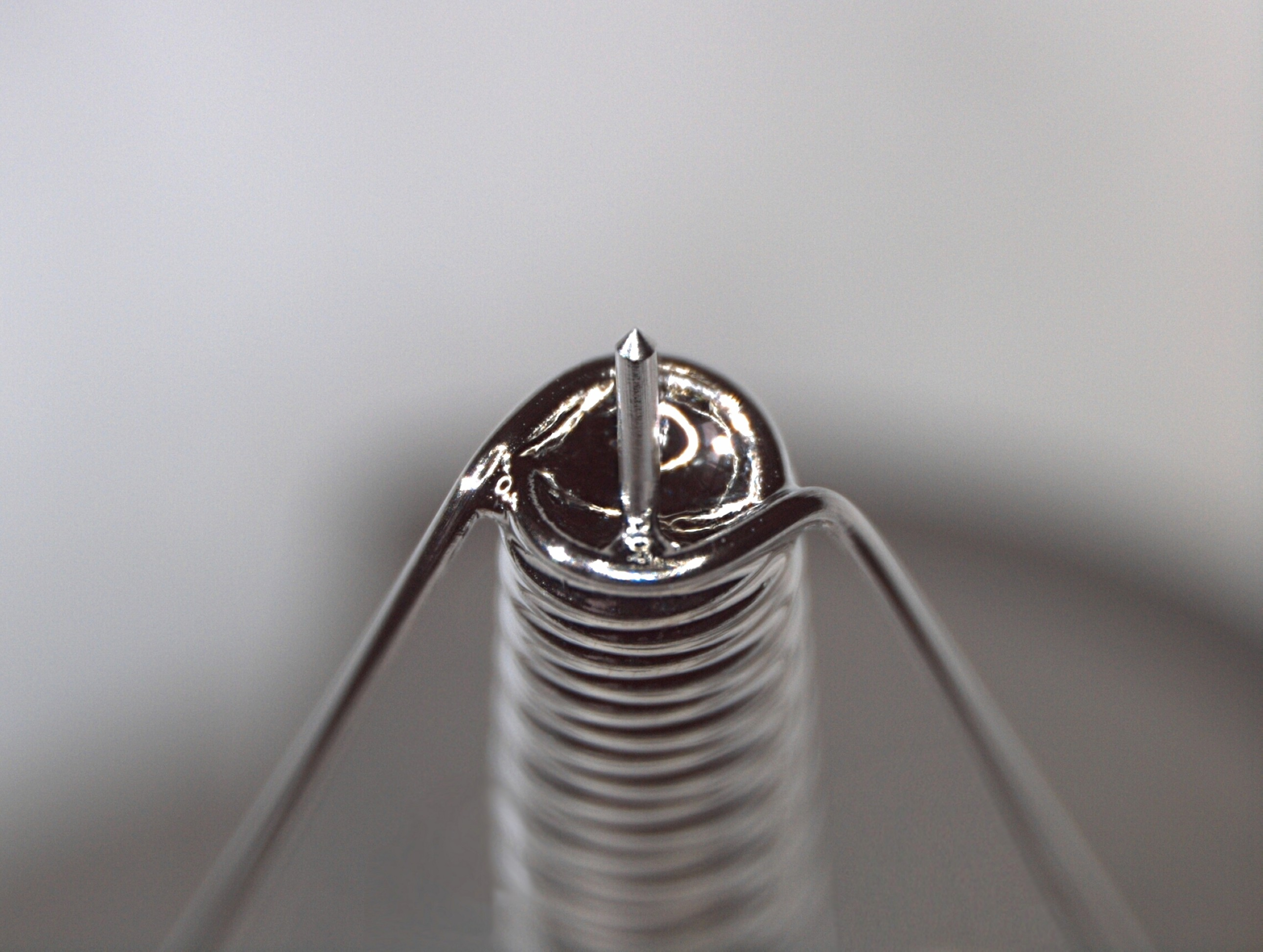 filled new liquid metal ion source